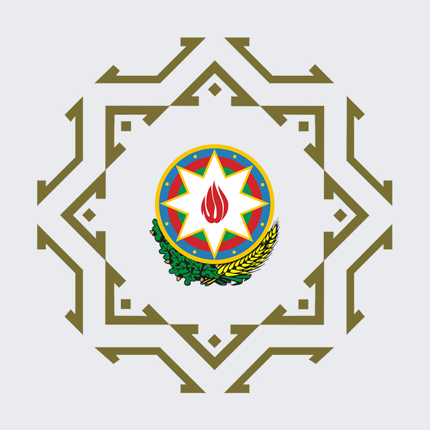 The logo of the Ministry of Economy of Azerbaijan